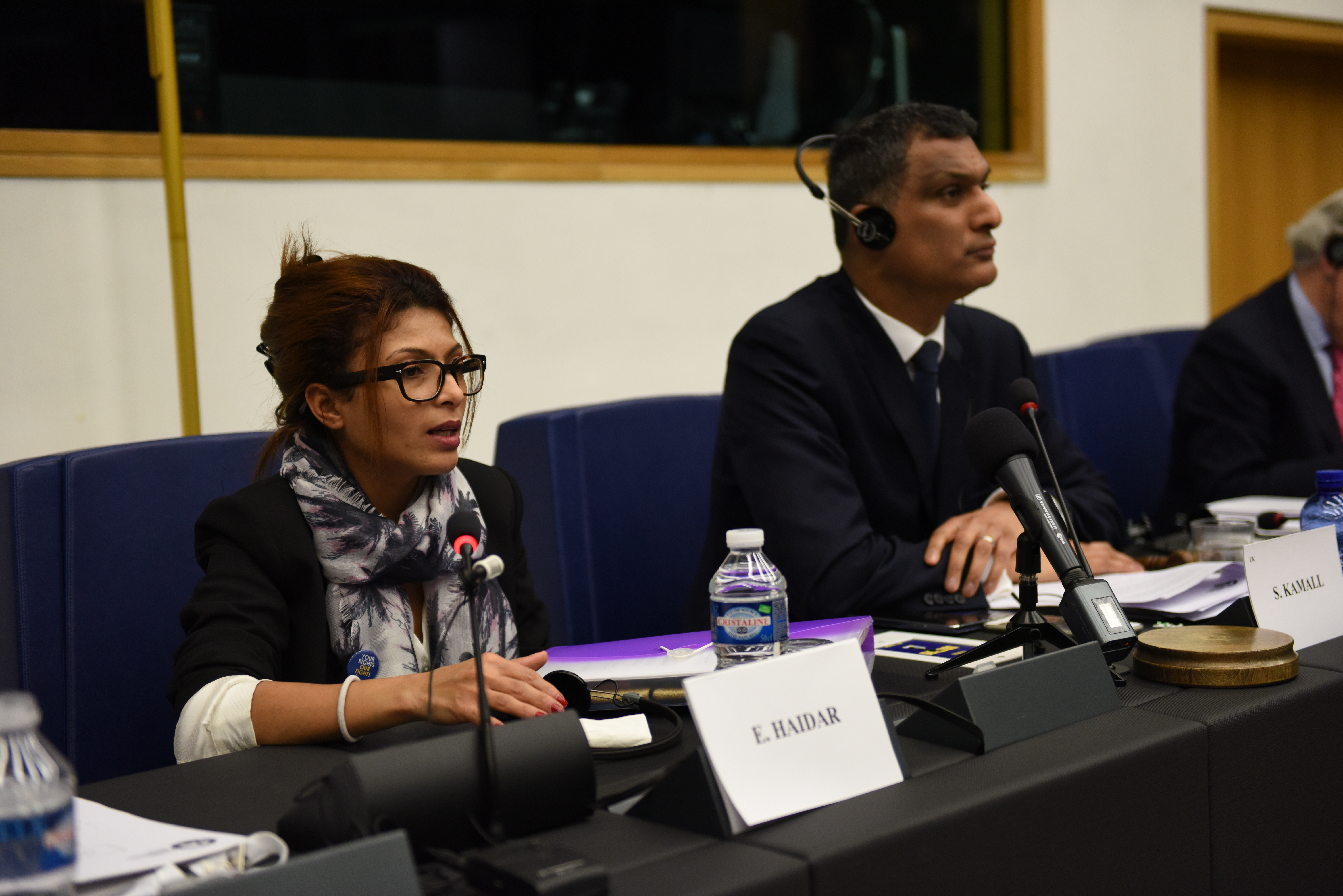 Raif Badawi is a Saudi Arabian writer, dissident, and activist, and the creator of the website Free Saudi Liberals. In 2013 he was convicted on several charges and sentenced to seven years in prison and 600 lashes. His wife, Ensaf Haidar, who took refuge in Canada after her life was threatened in Saudi Arabia, has said Badawi will not be able to survive further flogging.